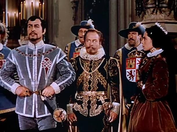 L. to R. : Robert Douglas, Romney Brent & Viveca Lindfors in Adventures of Don Juan - trailer (cropped screenshot)